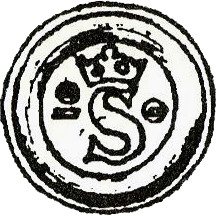 Coin of Sverker II of Sweden.